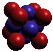 compact cubic structure